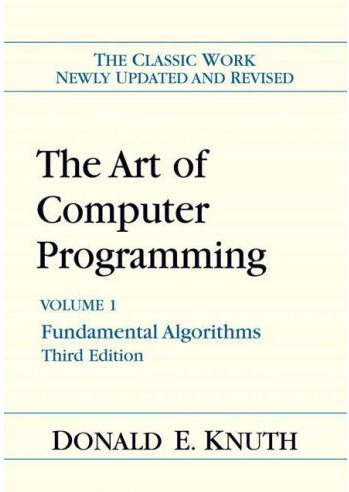 cover of the book The Art of Computer Programming